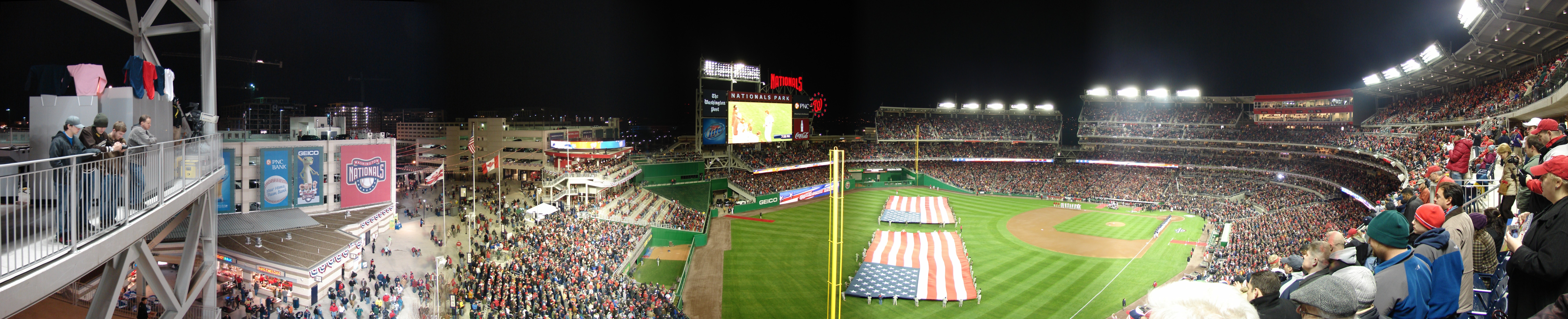 Nationals Park 01:04, 29 April 2008 . . Pgmark . . 9,167×1,867 (8.14 MB)